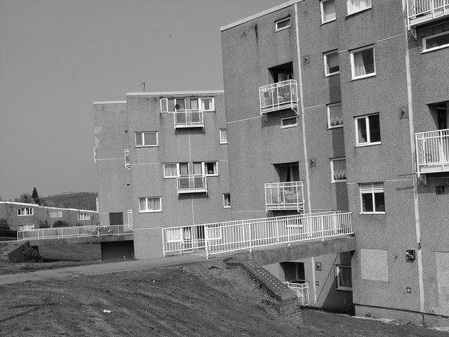 Flats on Ironside Road When I was a kid, we used to make Cap-Bombs from 2 bolts and a nut joined in the middle, packed with Caps and throw them from the top floor onto the bridge, much to the amusement of the residents (Not), and also throw Scotch Arrows over the flats onto the grass behind.